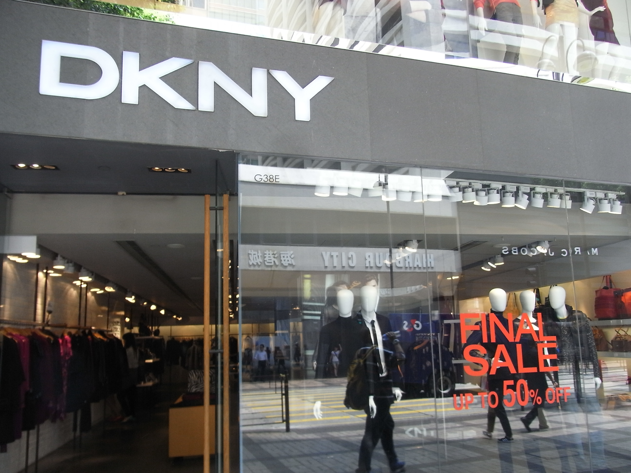 尖沙咀 廣東道, Canton Road, Tsim Sha Tsui, Hong Kong